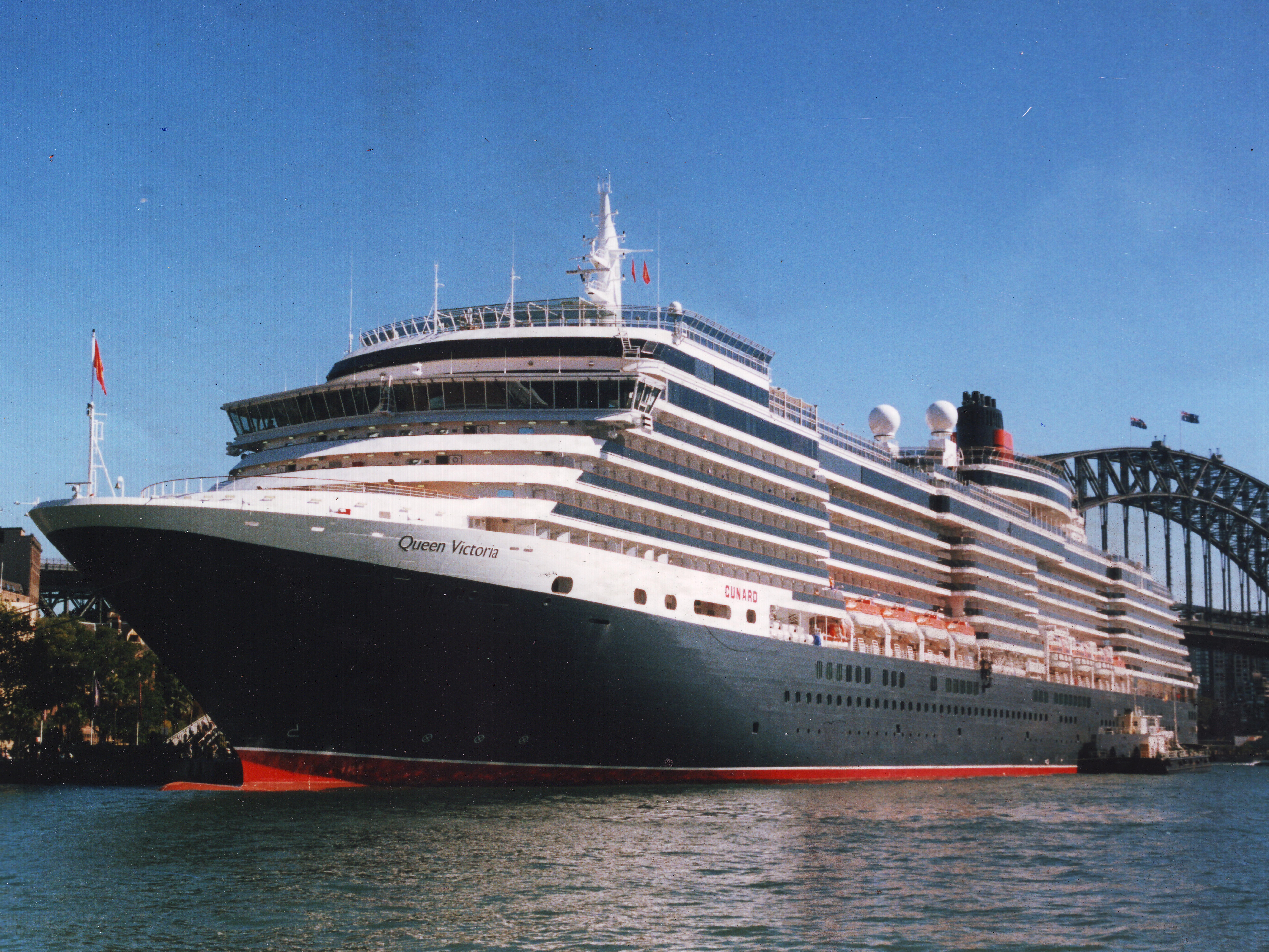 the ship MS Queen Victoria